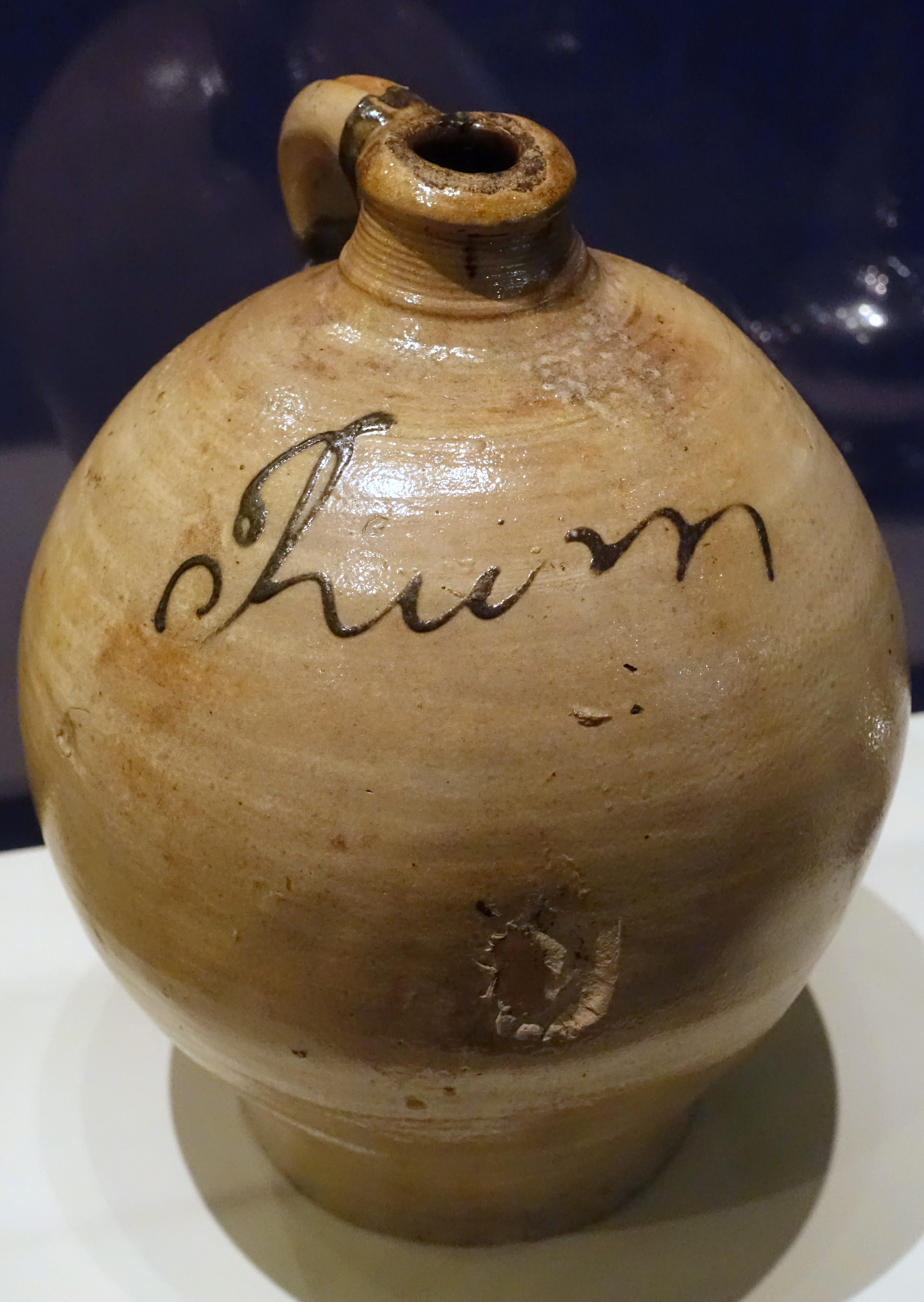 Exhibit in the National Museum of American History, Washington, DC, USA.